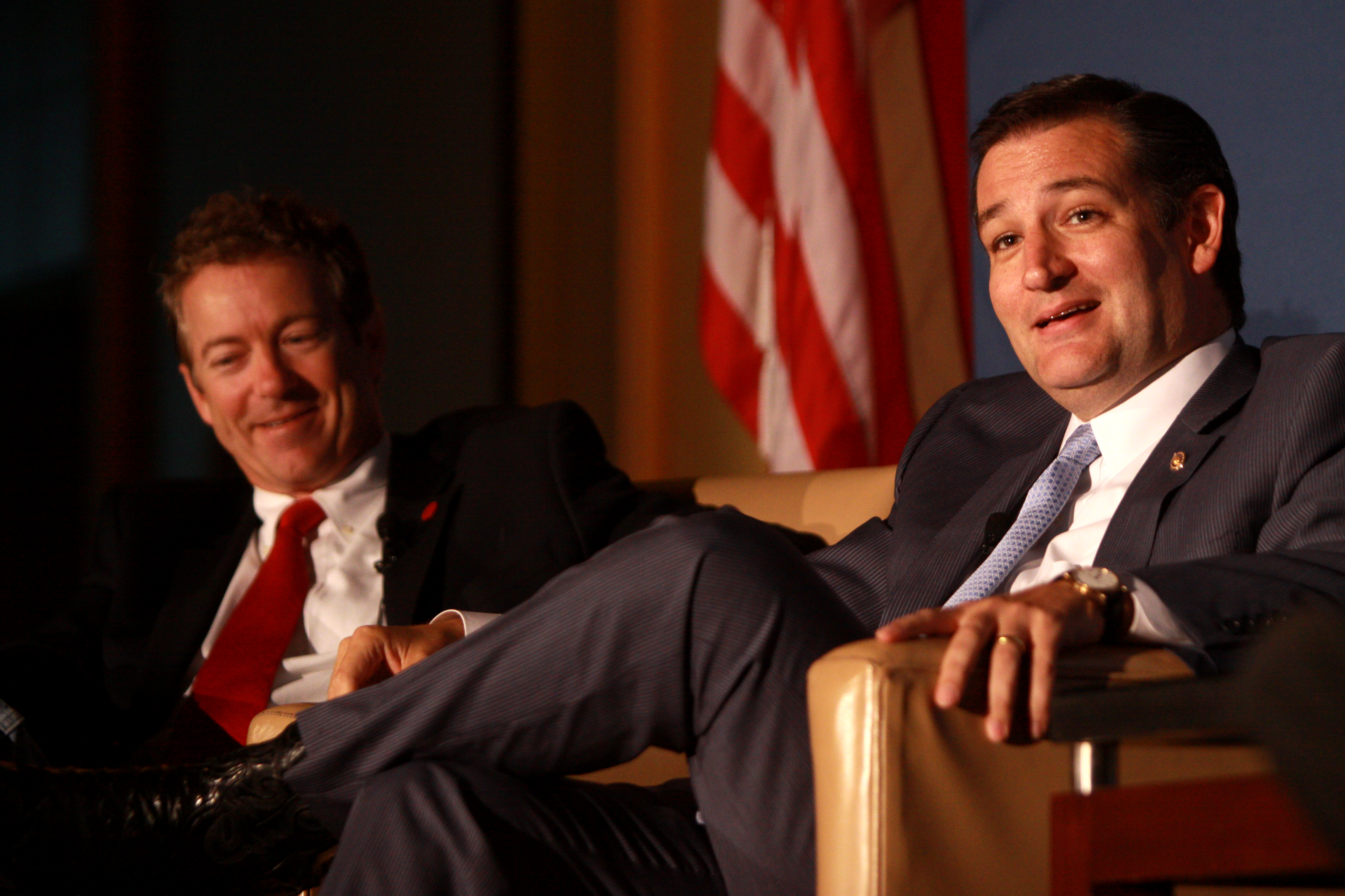 Senators Rand Paul and Ted Cruz speaking at the 2013 Young Americans for Liberty National Convention at George Mason University in Arlington, Virginia.